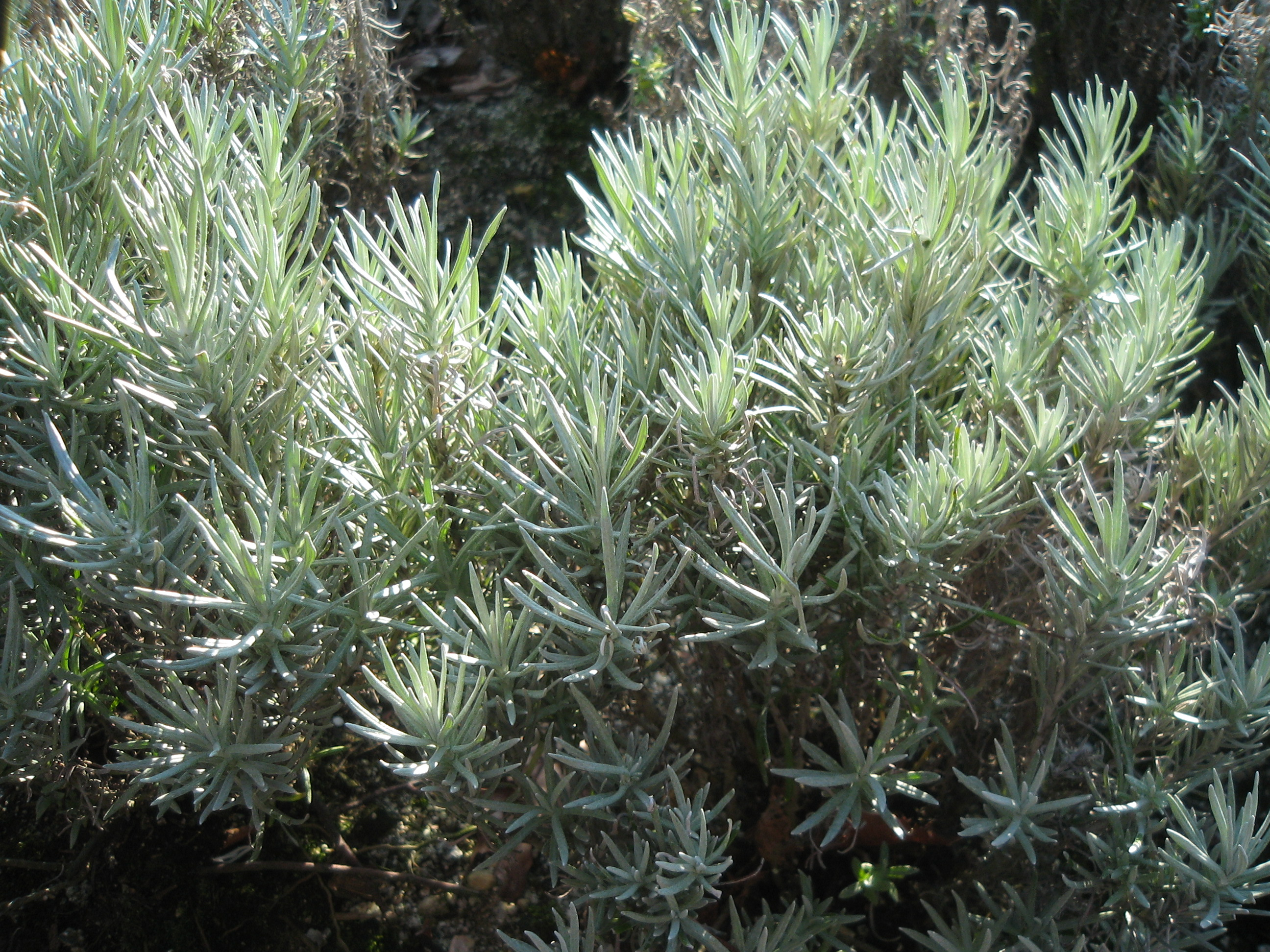 Helichrysum italicum. This photograph was taken in 福岡市植物園, Fukuoka, Japan.